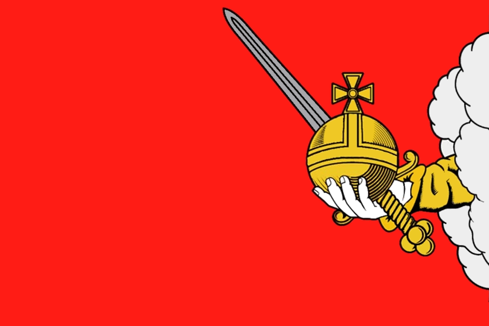 Flag of Vologda